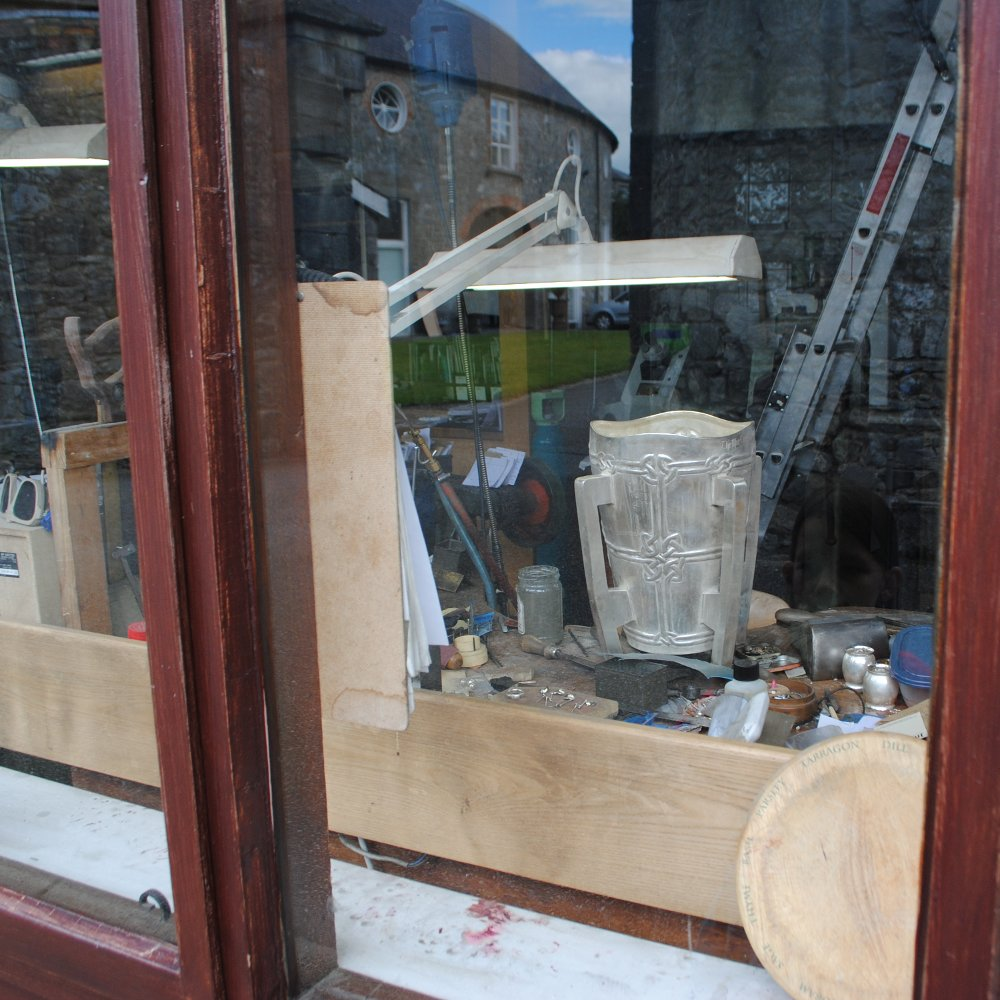 The MacCarthy Perpetual Challenge Cup (commonly referred to (and incorrectly spelled) as the McCarthy Cup) is a trophy awarded annually by the Gaelic Athletic Association to the hurling team that wins the All-Ireland Senior Hurling Championship. Picture taken in Aug 2011 in Kilkenny during its stay at James Kelly's workshop for repairs before the 2011 final.